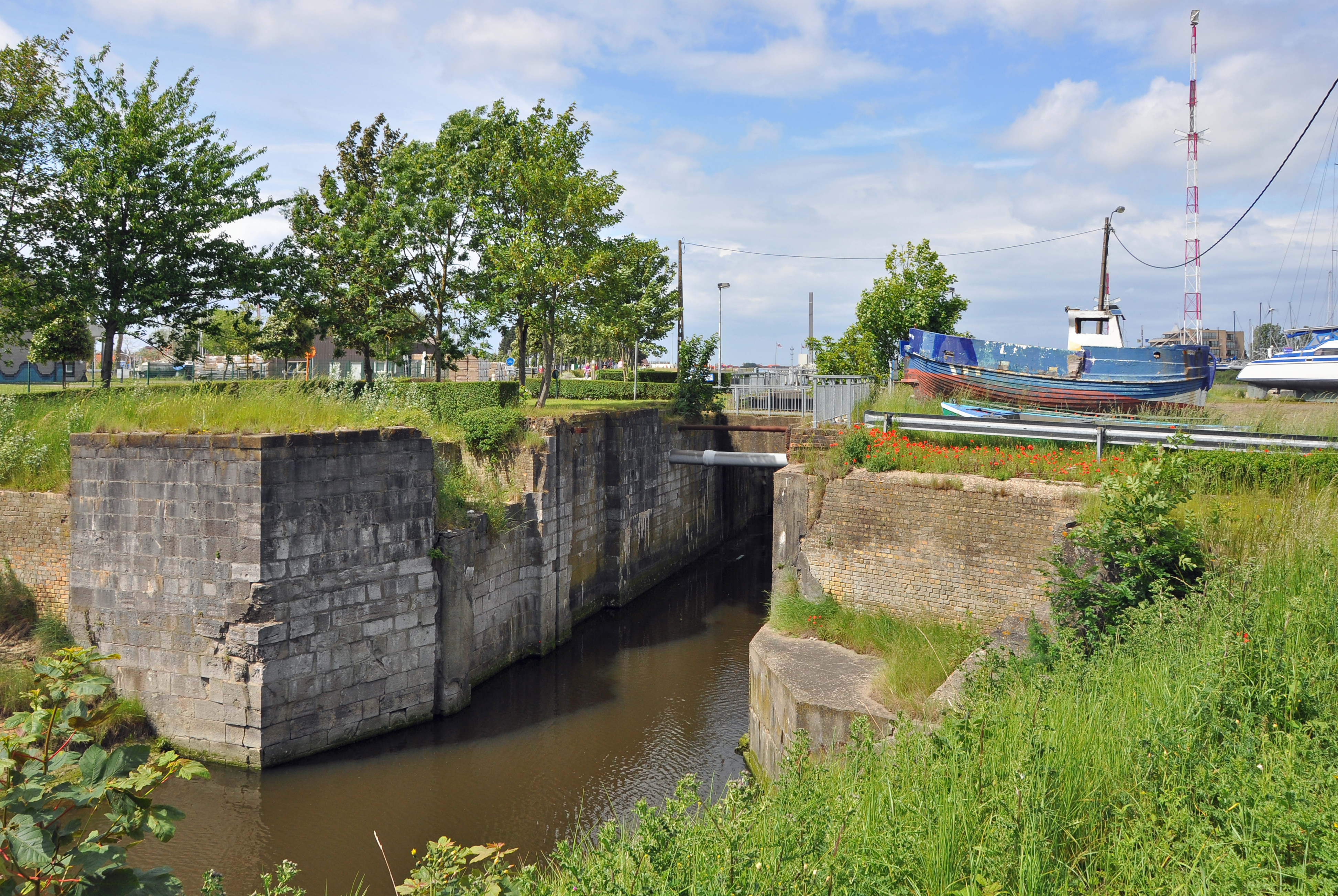 Nieuwpoort (Belgium): the Kattesas (old sluice)